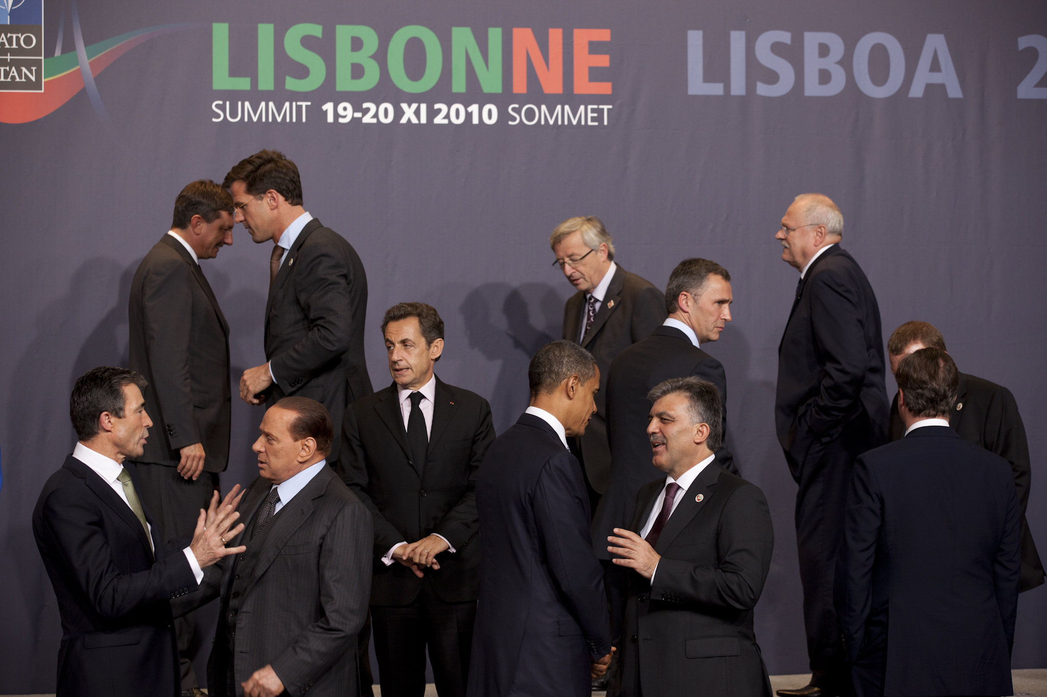 President Barack Obama chats with Turkish President Abdullah Gul before the official photo at the NATO Summit in Lisbon, Portugal, Nov. 19, 2010.